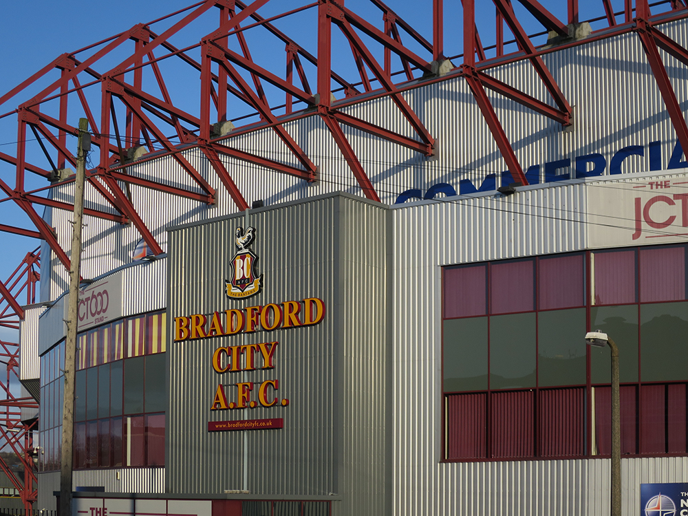 Valley Parade Mainstand (2016)